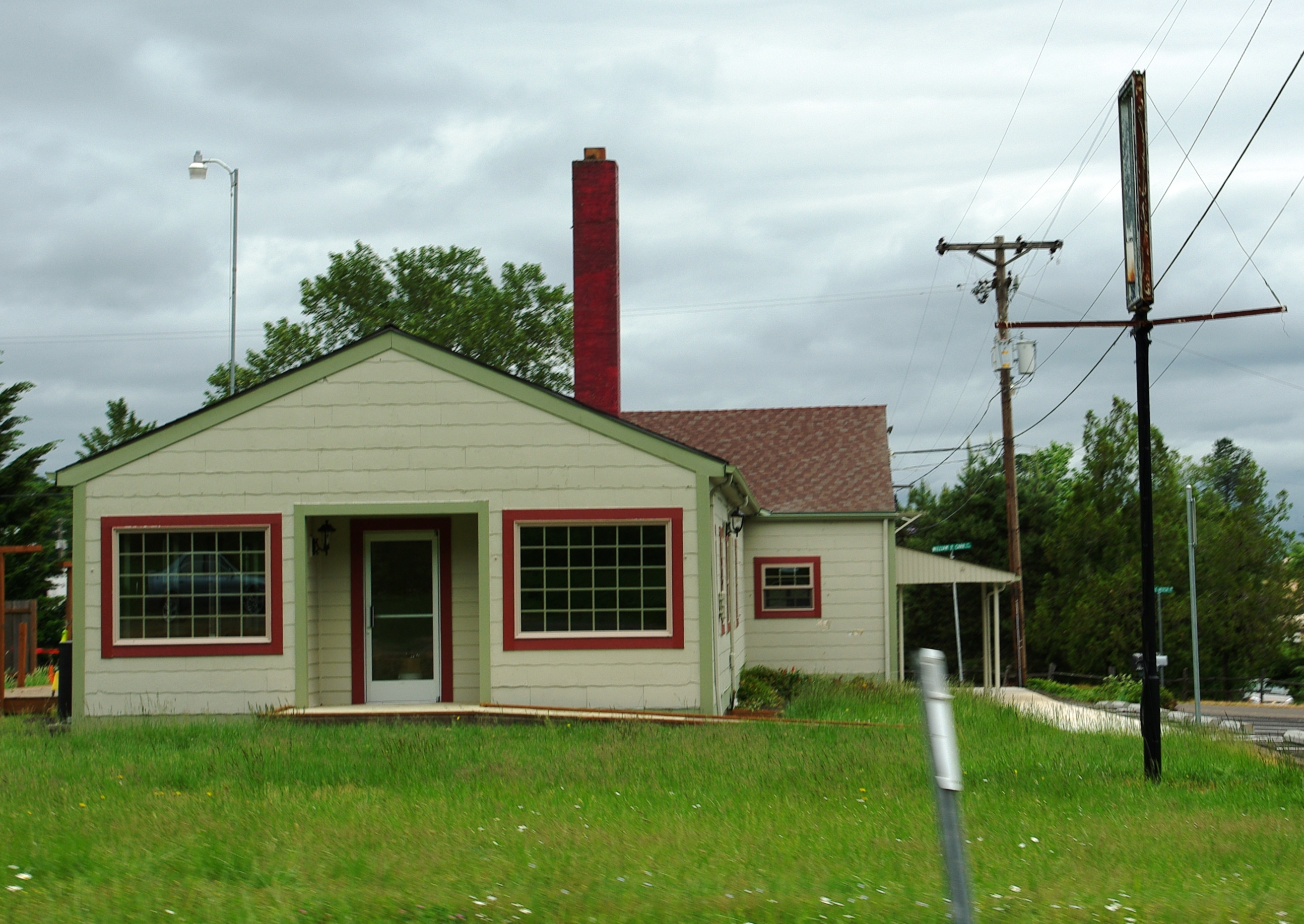 Adair Village, Oregon building